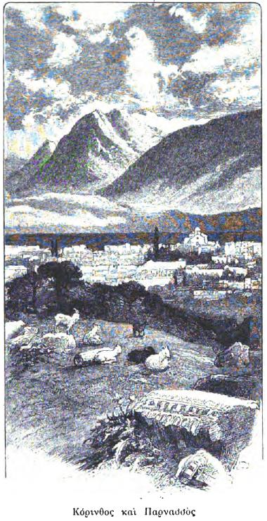 Hestia (1876) Author: Diomedes, Paulos Subject: Greek literature, Modern; Greek periodicals Publisher: [Athēnēsi : s.n. Year: 1894 Possible copyright status: NOT_IN_COPYRIGHT Language: Greek Digitizing sponsor: Google Book from the collections of: Harvard University Collection: americana]